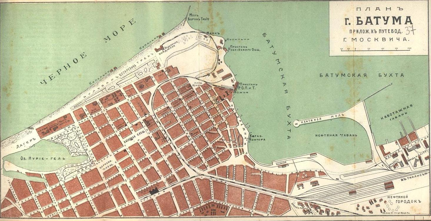 A plan of Batum. A color insert from the 1913 Russian travel guide on the Caucasus